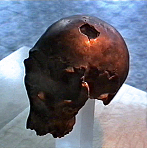 Cast of Saccopastore 1 skull at the Royal Belgian Institute of Natural Sciences